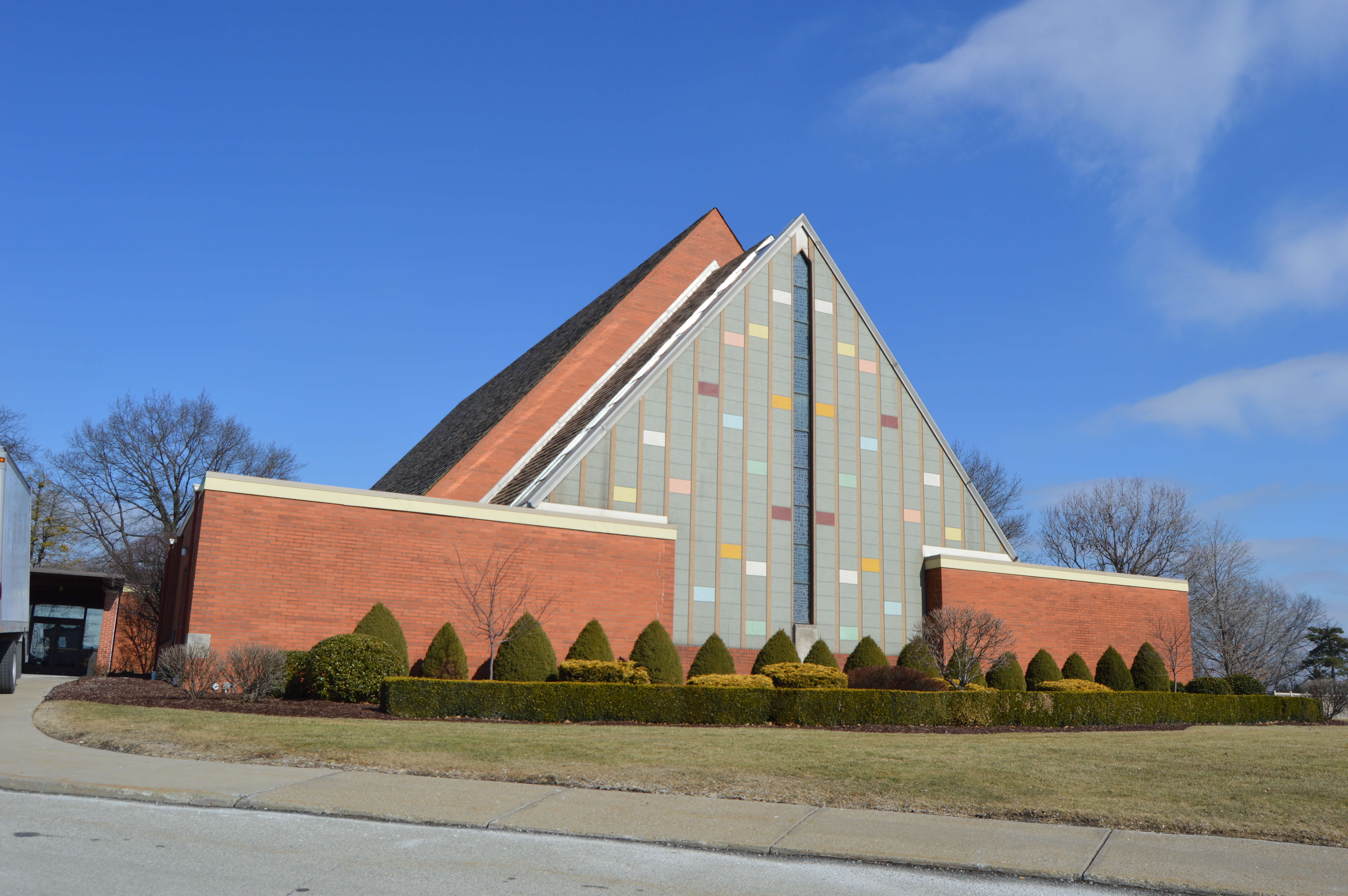 Front of the new Beulah Presbyterian Church, located at 2500 McCrady Road in Churchill, Pennsylvania, United States.